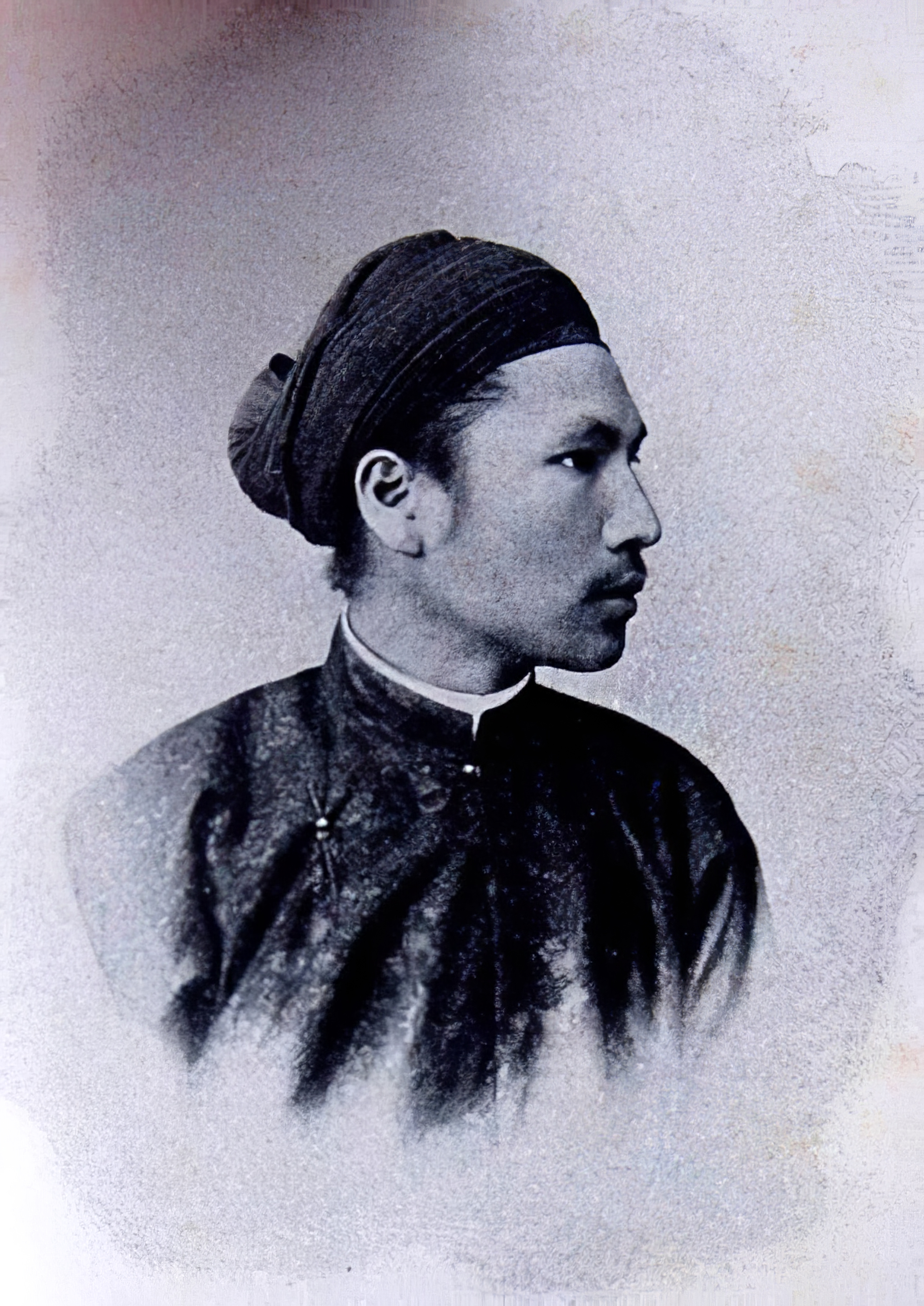 Emperor Ham Nghi of Vietnam.